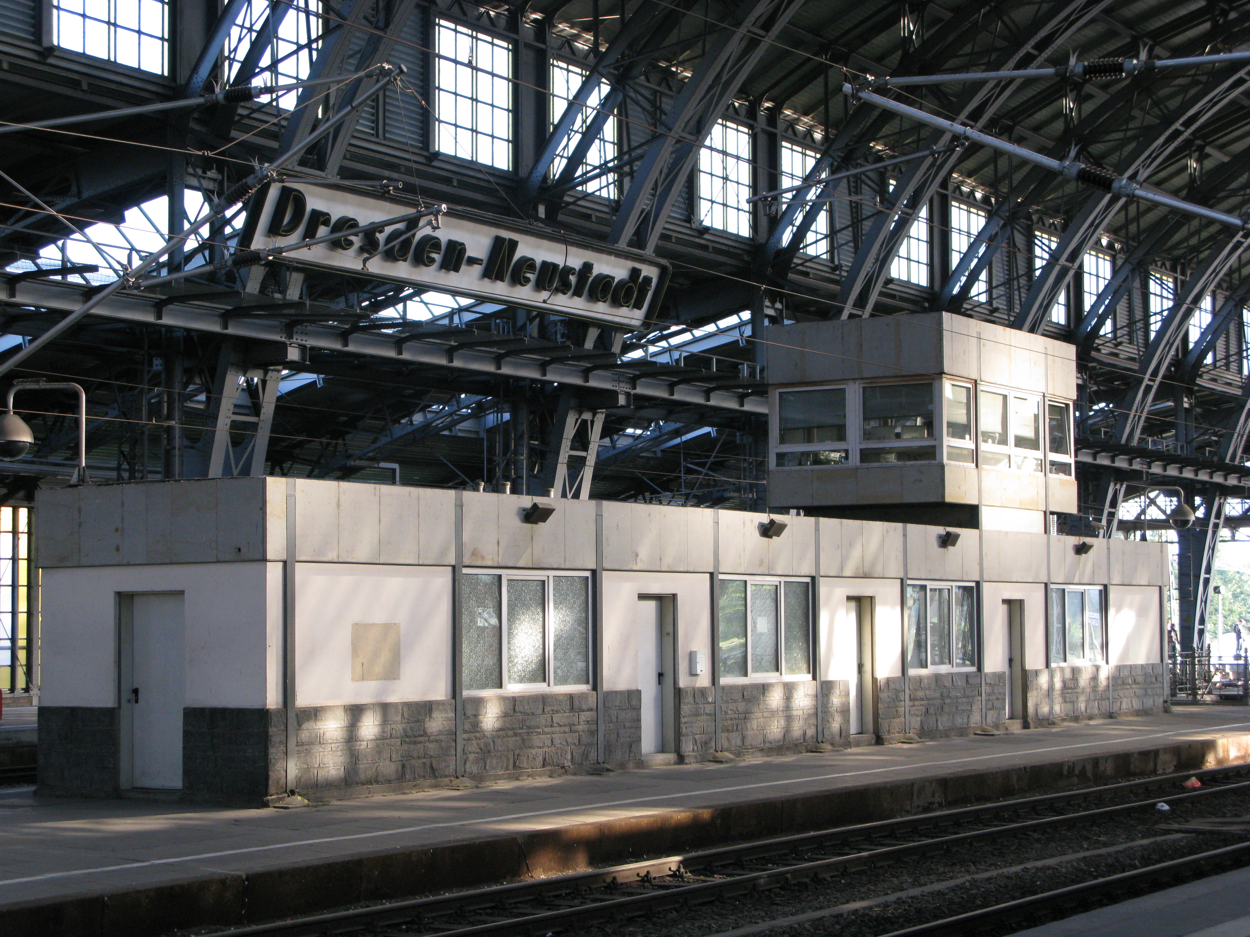 Control room at station Dresden-Neustadt (built 1980) at platform C (between tracks 5 and 6)